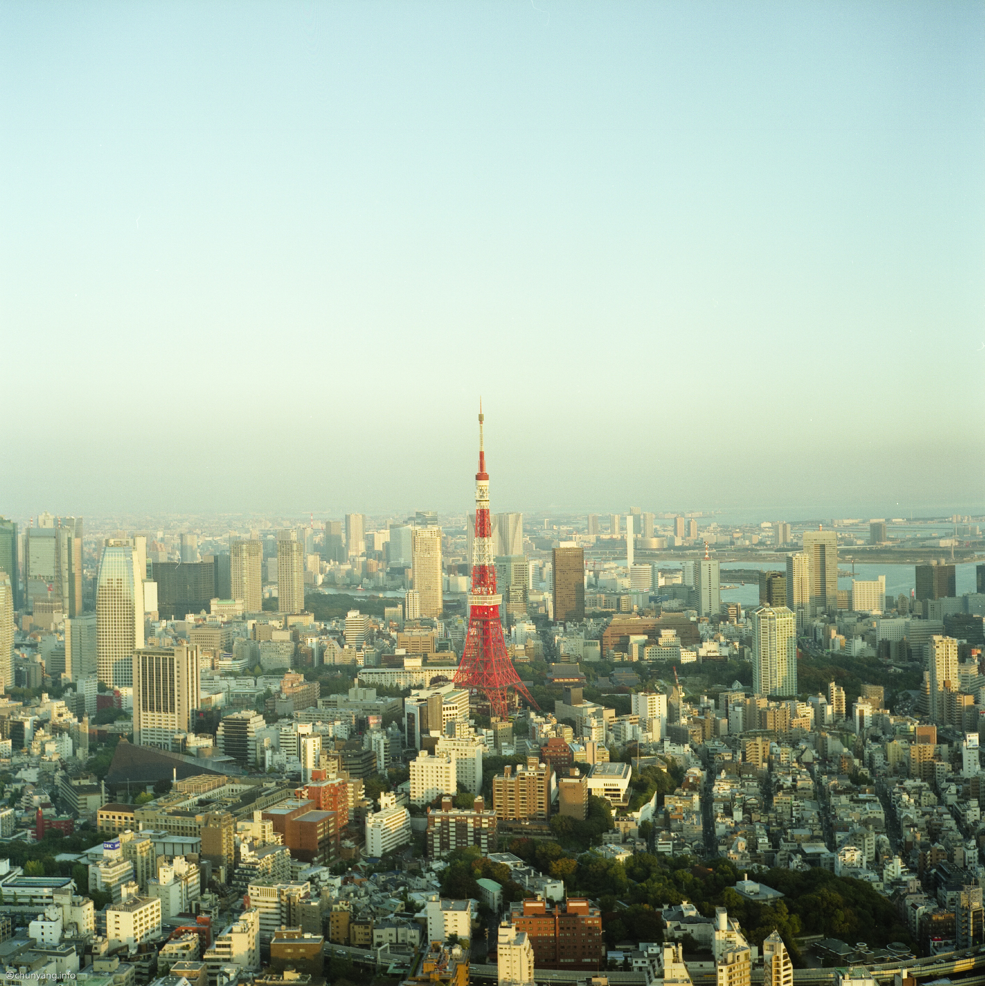 Tokyo Tower from Roppongi